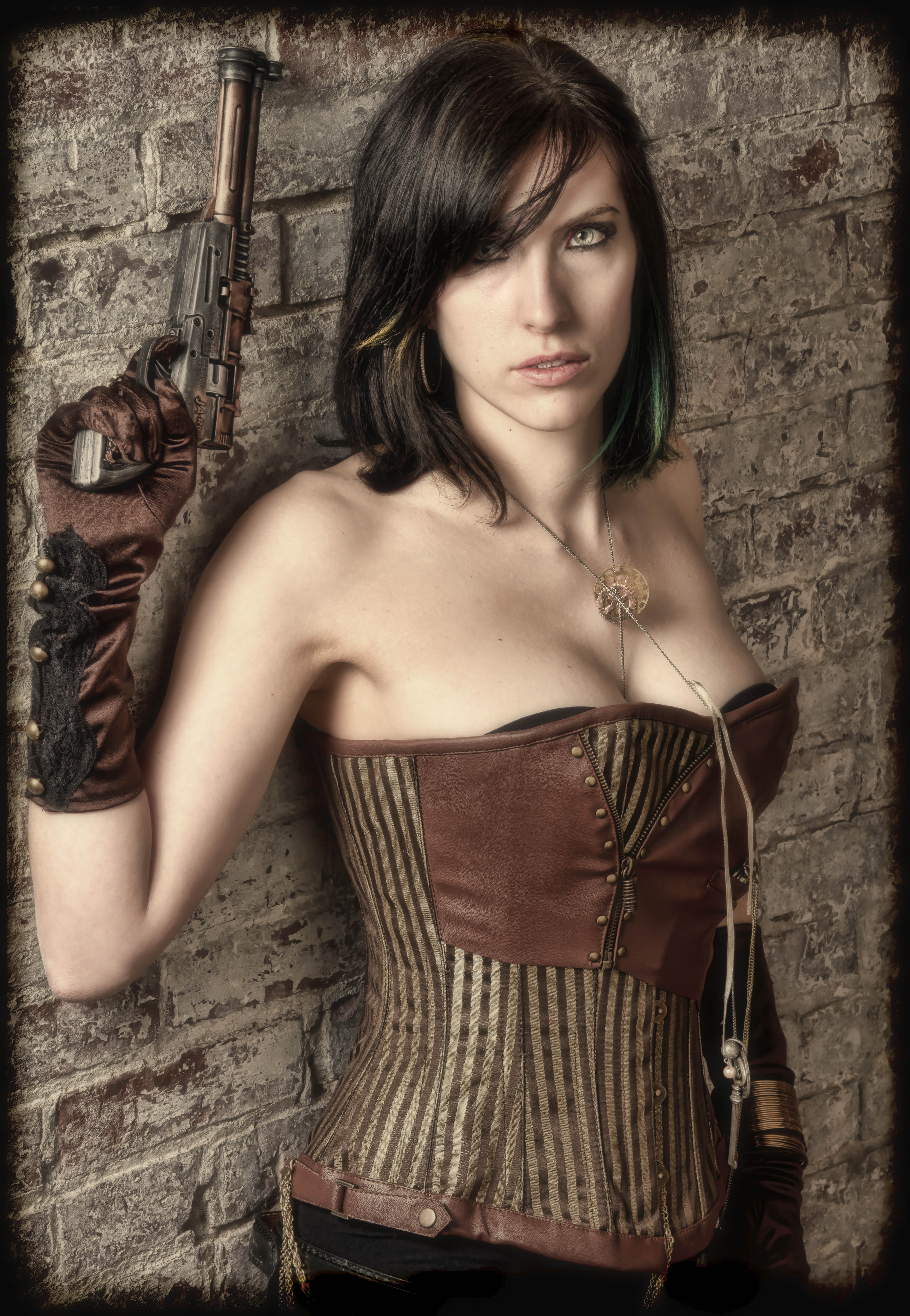 Photo shoot with SJ Brink at PiP in Philadelphia by Joe Alfano